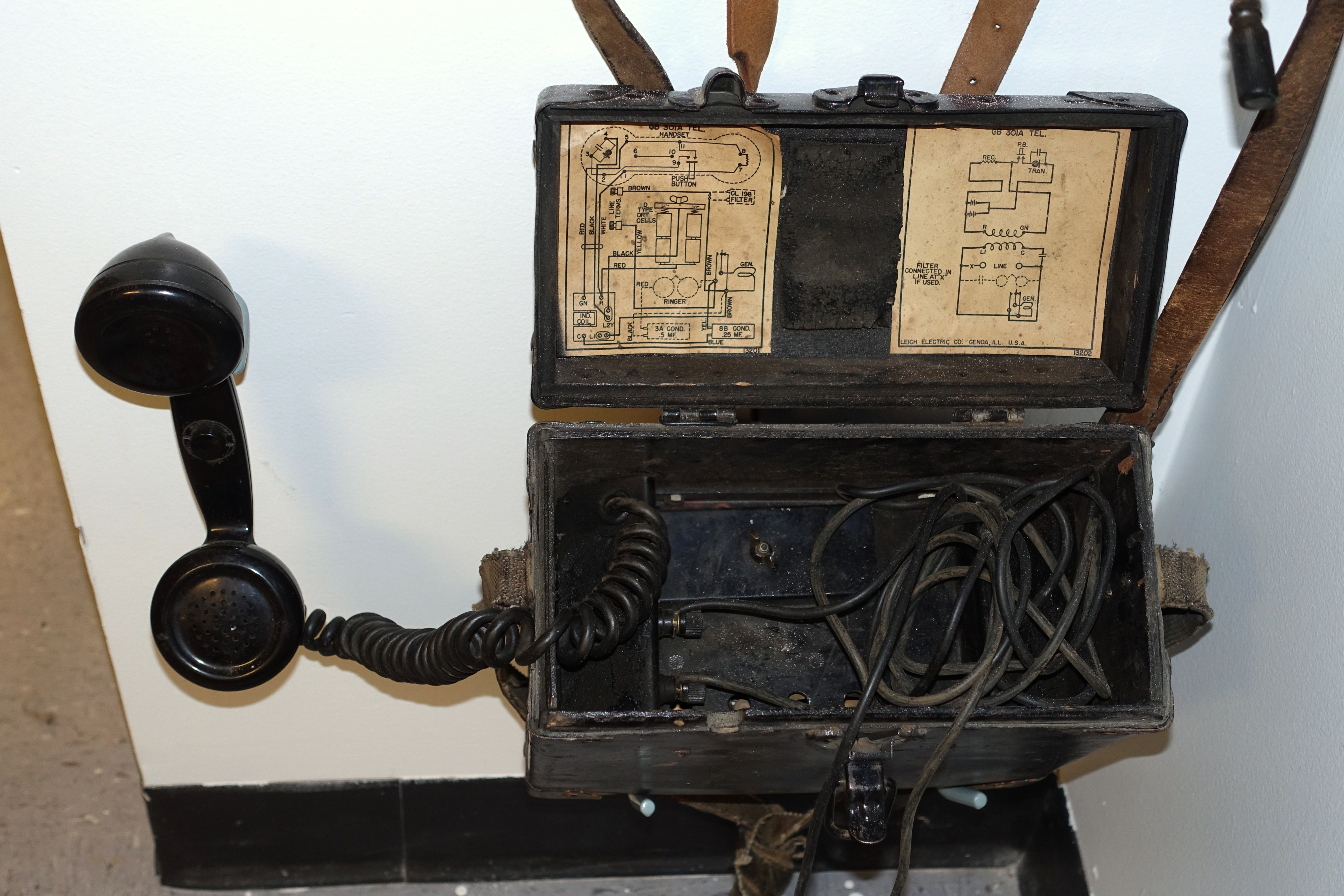 Exhibit in the Telephone Museum - Waltham, Massachusetts, USA. As a utilitarian object, this exhibit is NOT subject to copyright laws. Instead it is subject to Industrial Design Rights; see Industrial Design Right for more information. If this object was ever covered by a design patent, that patent has expired, and thus this image is in the public domain.